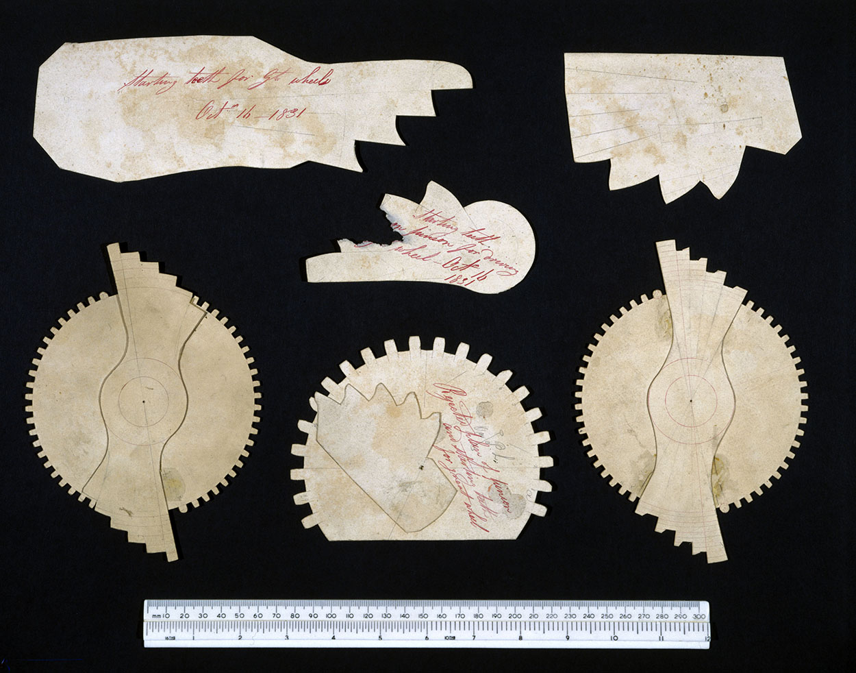 Cardboard gearwheel cut-outs, labelled and dated, for Babbage's Difference Engine No 1. The British computing pioneer Charles Babbage (1791-1871) first conceived the idea of an advanced calculating machine to calculate and print mathematical tables in 1812. This, he believed, would eliminate the inaccuracy that occurred when compiling mathematical tables by hand. His first attempt was the Difference Engine. Babbage used cardboard cut-outs while he was developing his designs. This engine was under construction from 1824 until 1832, when the project was abandoned after a disagreement with his engineer Joseph Clement.